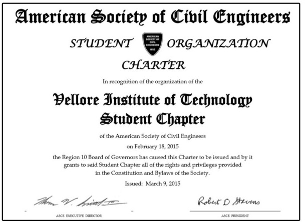 Authentic Certification of ASCE-VIT Student chapter Recognized by American Society of Civil Engineers, Reston, Virginia